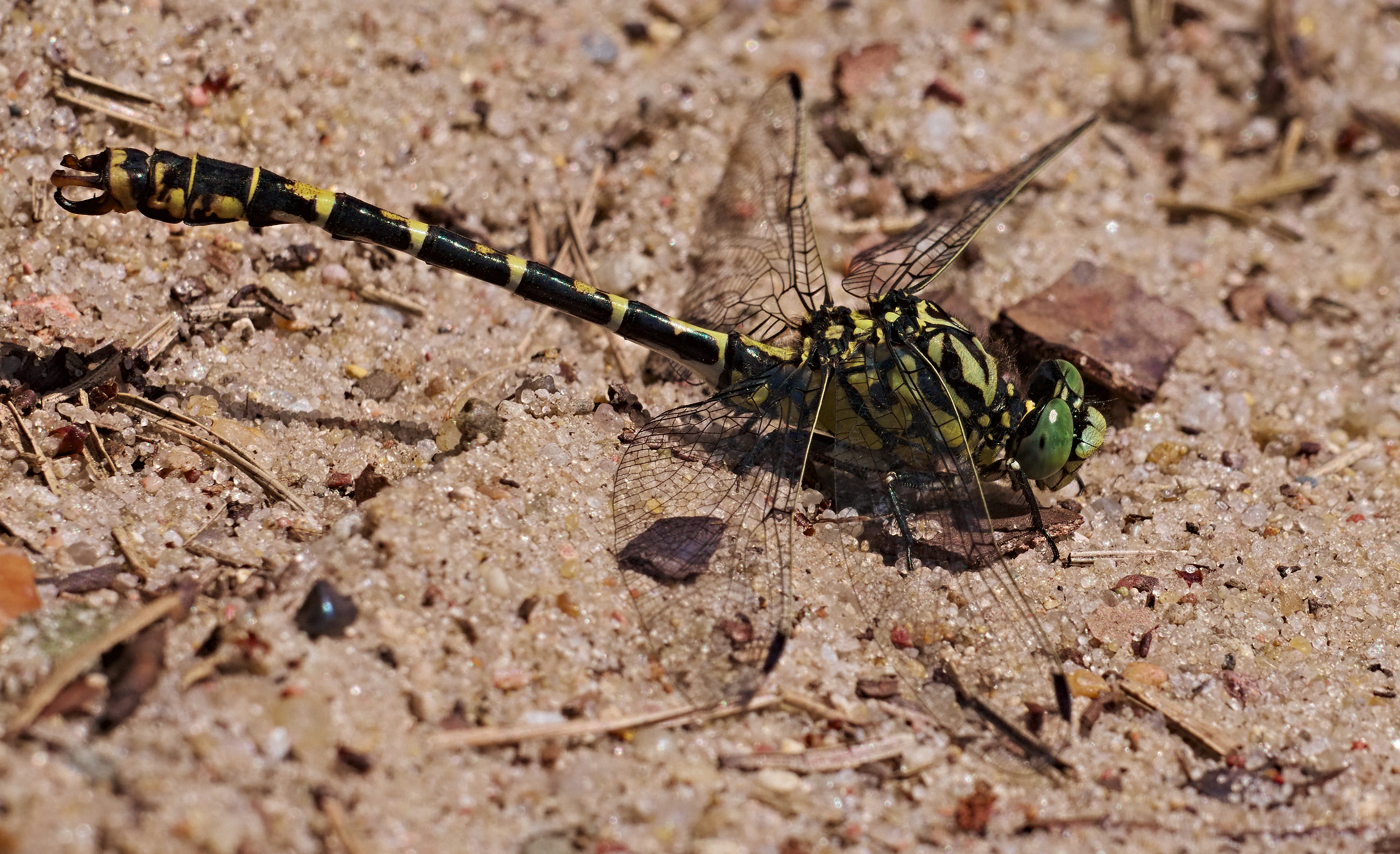 Small pincertail - Onychogomphus forcipatus, male. Taken by the Tiefen See or Grubensee, Storkow (Mark), Brandenburg, Germany.